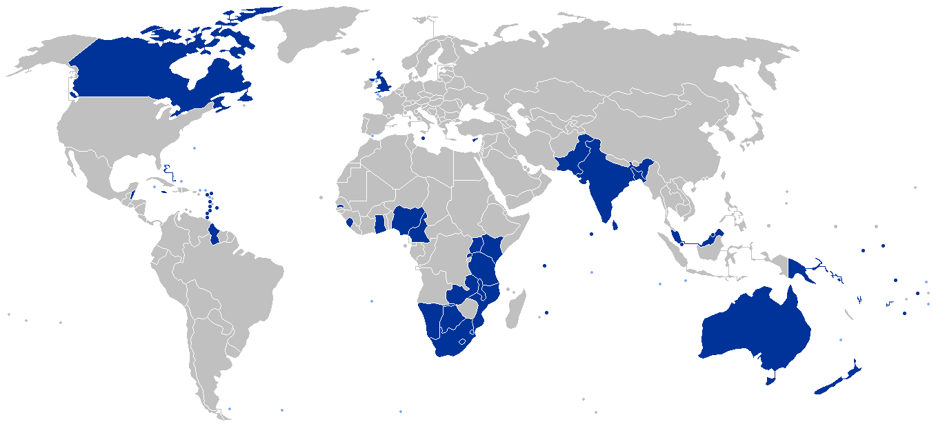 Map of the Commonwealth of Nations as of 2007. Member states are in dark blue. Territories and dependencies (including Crown Dependencies) of member states are in light blue. Fiji (which is currently suspended) is striped.